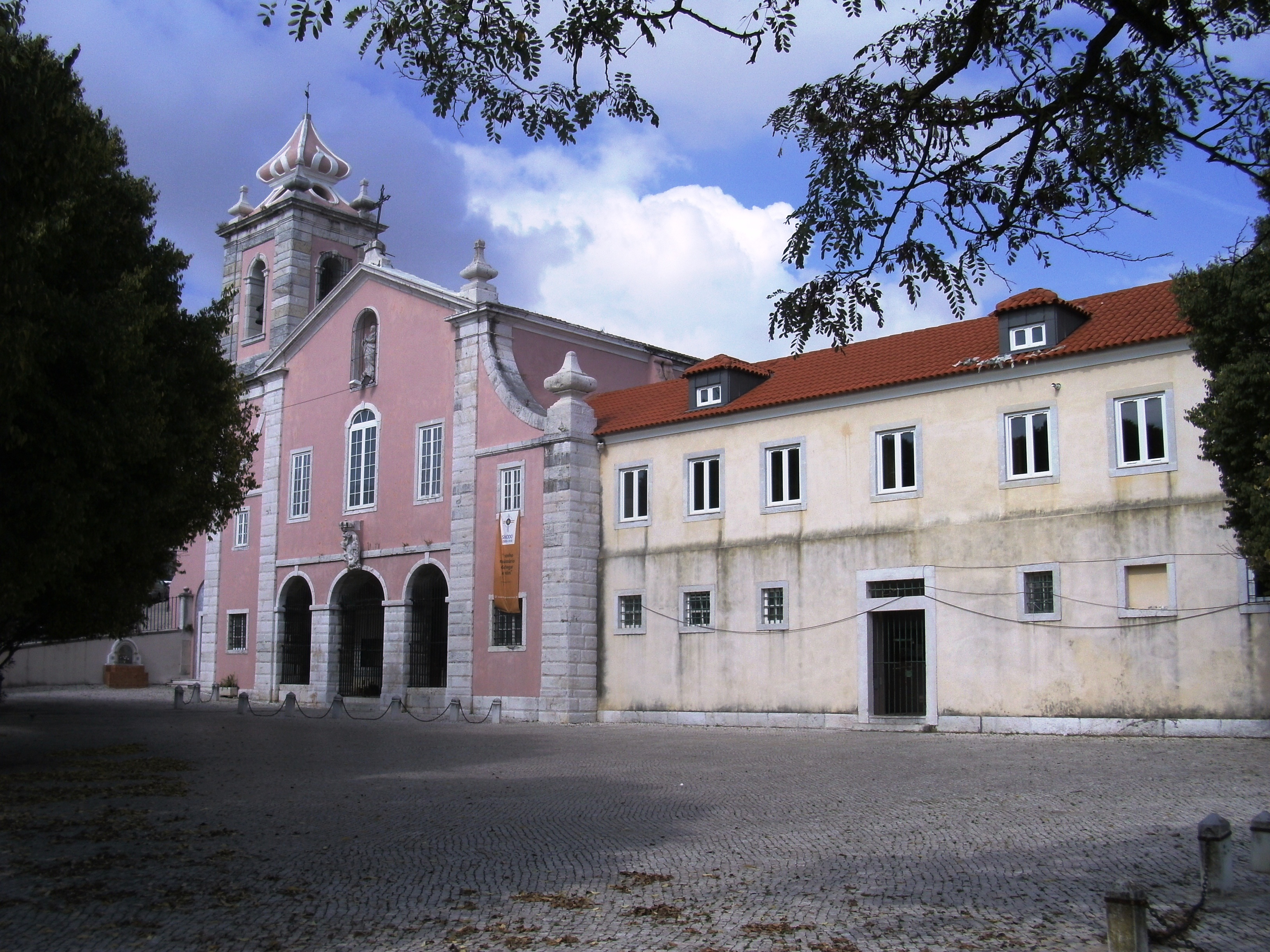 Igreja de Nossa Senhora da Porciúncula também designada como Igreja Paroquial de Santa Engrácia ou Igreja de Nossa Senhora da Porciúncula, do Convento dos Barbadinhos